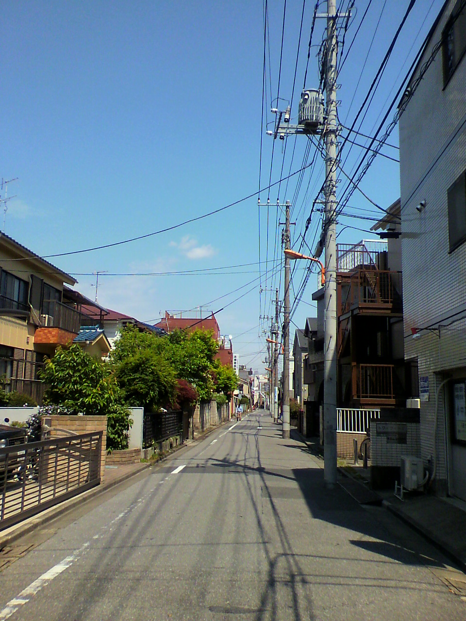 This is a landscape of Aoi 2 chome, Adachi, Tokyo, Japan.